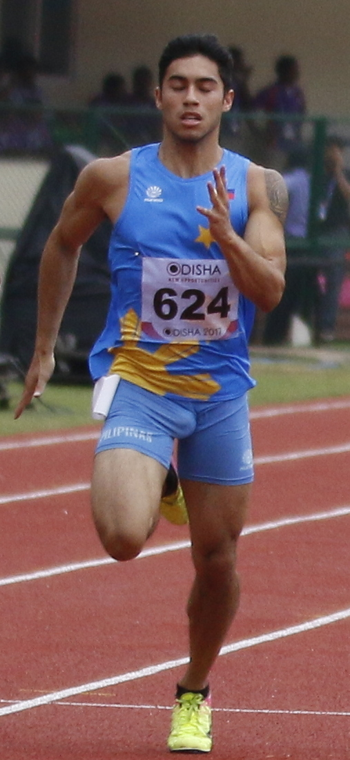 Athletes during 22nd Asian Athletics Championships in Bhubaneswar.